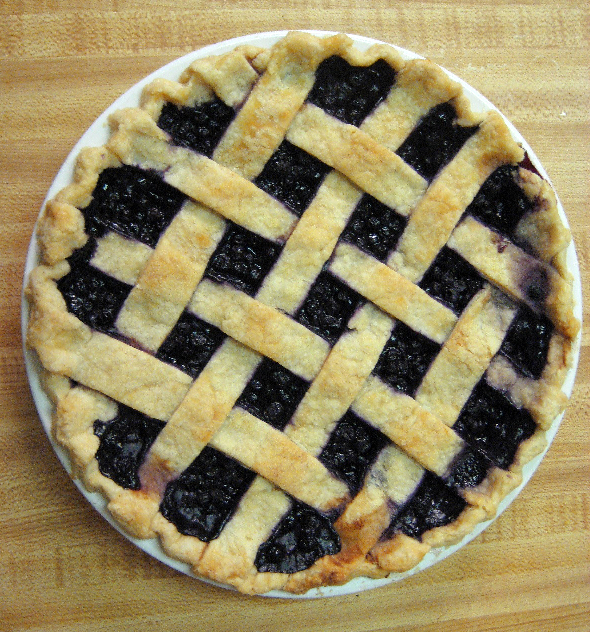 On the occasion of my birthday, 2009, Elizabeth baked me a blueberry pie! Thanks, Elizabeth!!!